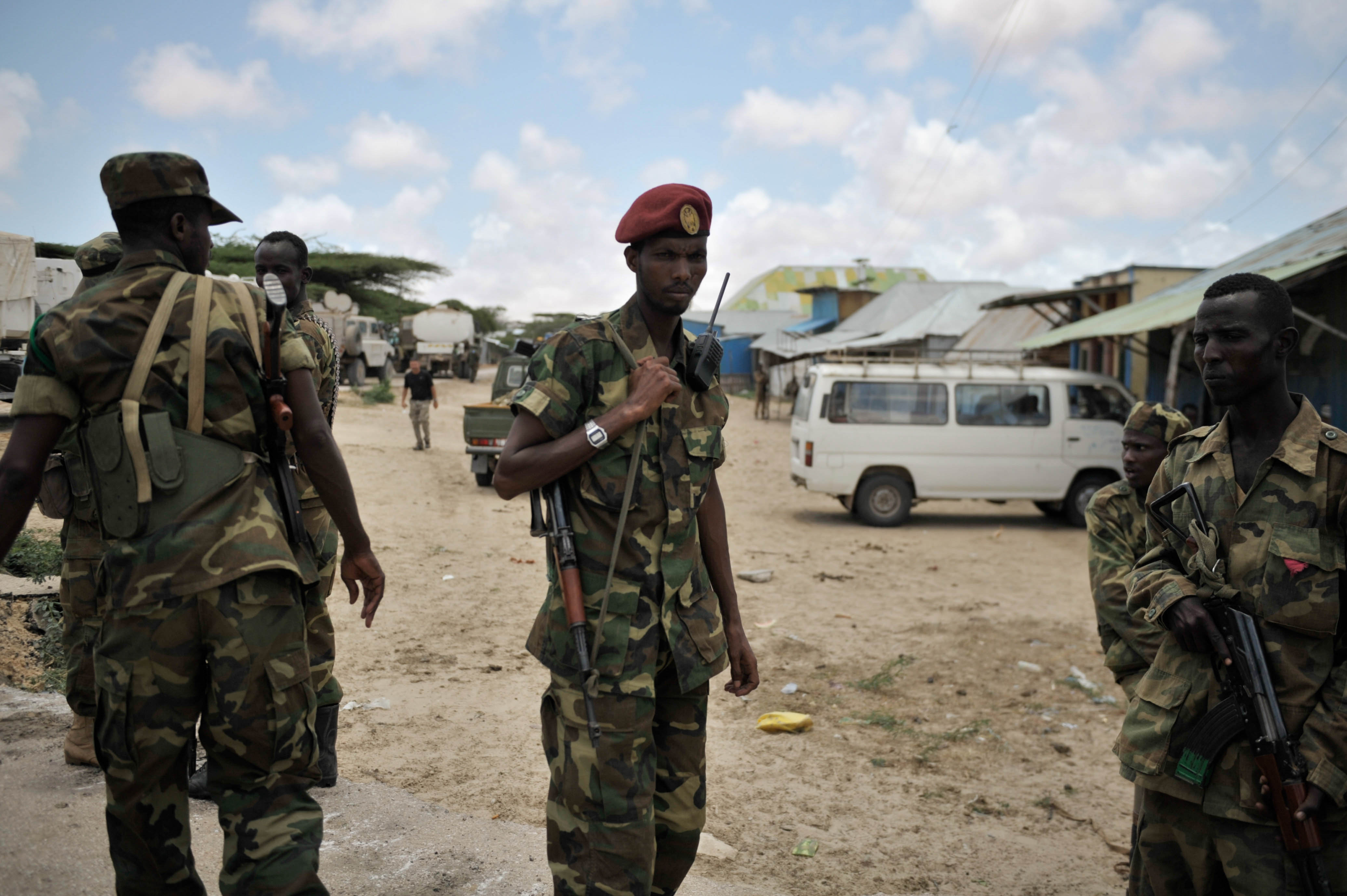 Soldiers belonging to the Somali National Army gather in a small settlement six kilometers away from the Al Shabab stronghold of Barawe in the Lower Shabelle region of Somalia on October 5. The SNA, along with African Union forces, hopes to liberate Barawe from the extremist group Al Shabab within the next couple of days. AMISOM Photo / Tobin Jones